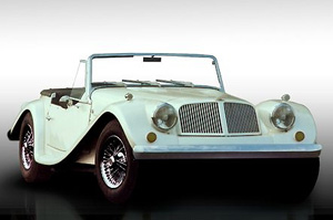 The gepard automotoryzacja